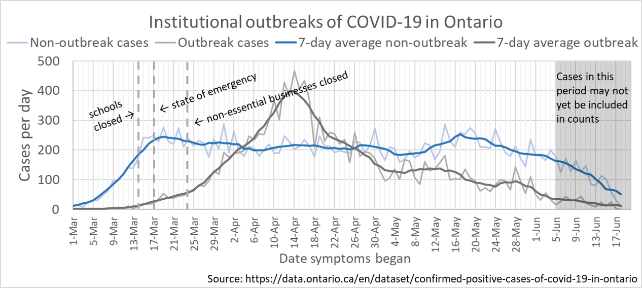 This is a graph of the COVID-19 test-confirmed cases per day separated in two groups: 1. Cases that are part of an outbreak in an institutional setting (e.g., long-term care home, retirement home, hospital, group home, shelter, correctional facility, other). 2. All other cases. The source data is: The source file is at This file may be updated to reflect new information. If you wish to use a specific version of the file without new updates being mirrored, please upload the required version as a separate file.